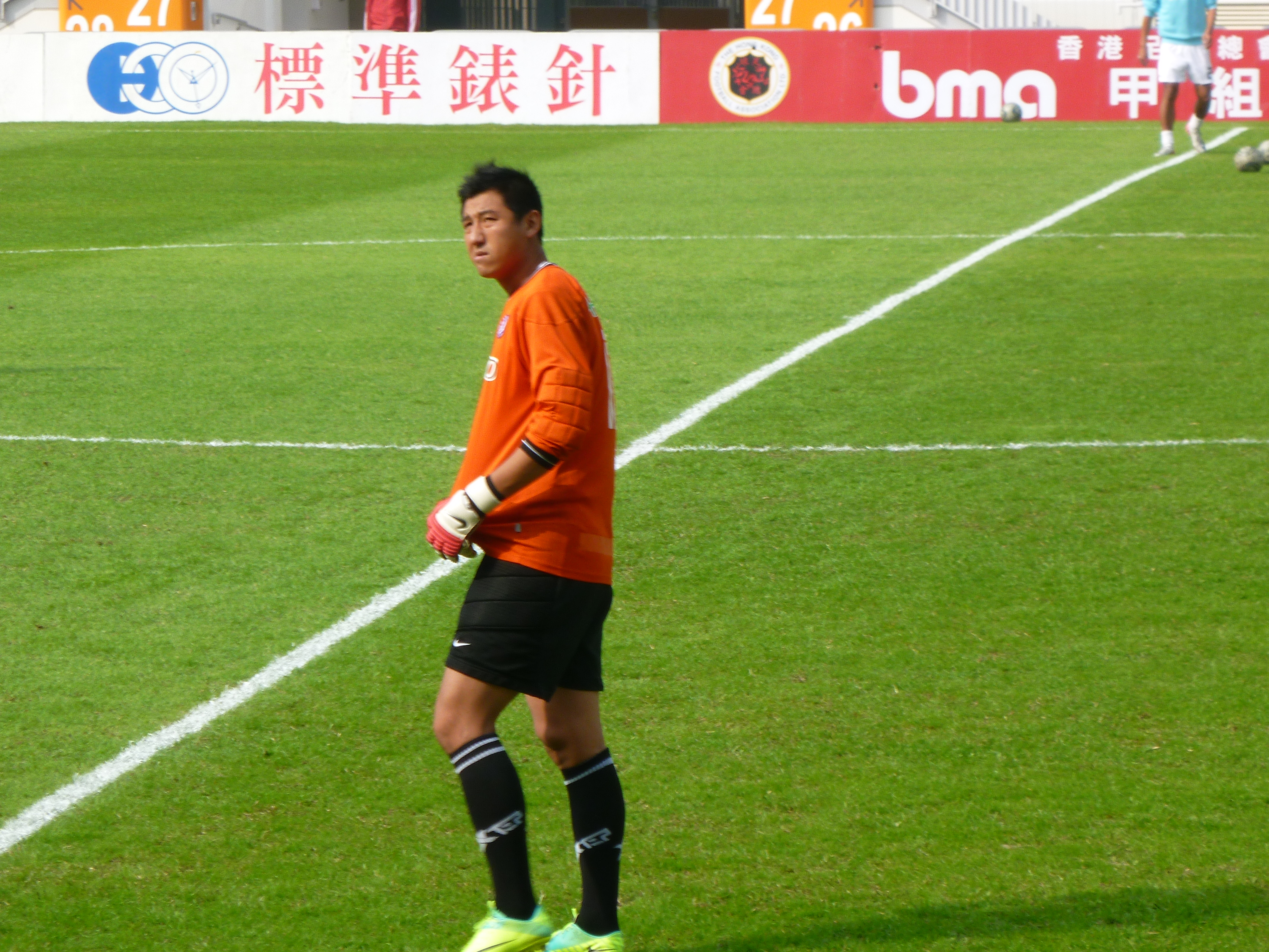 Wei Zhao (8 Jan 2012 Hong Kong First Division League, Rangers vs Kitchee, Mong Kok Stadium)